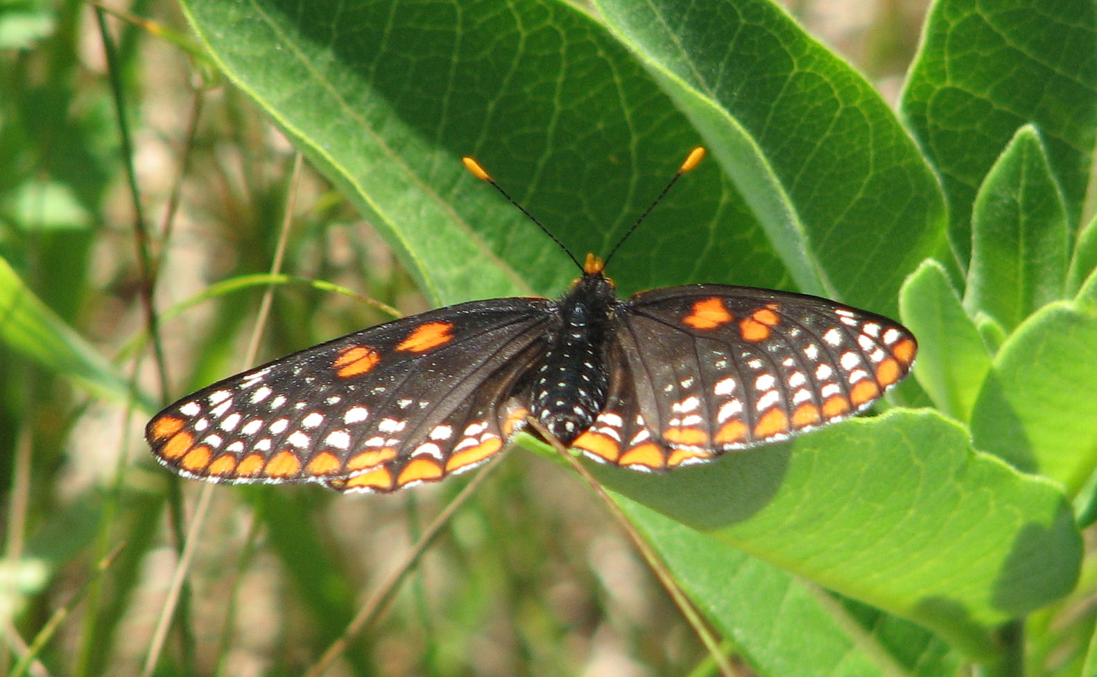 Baltimore Checkerspot (Euphydryas phaeton) taken in Mer Bleue Conservation Area, Ottawa, Ontario, Canada